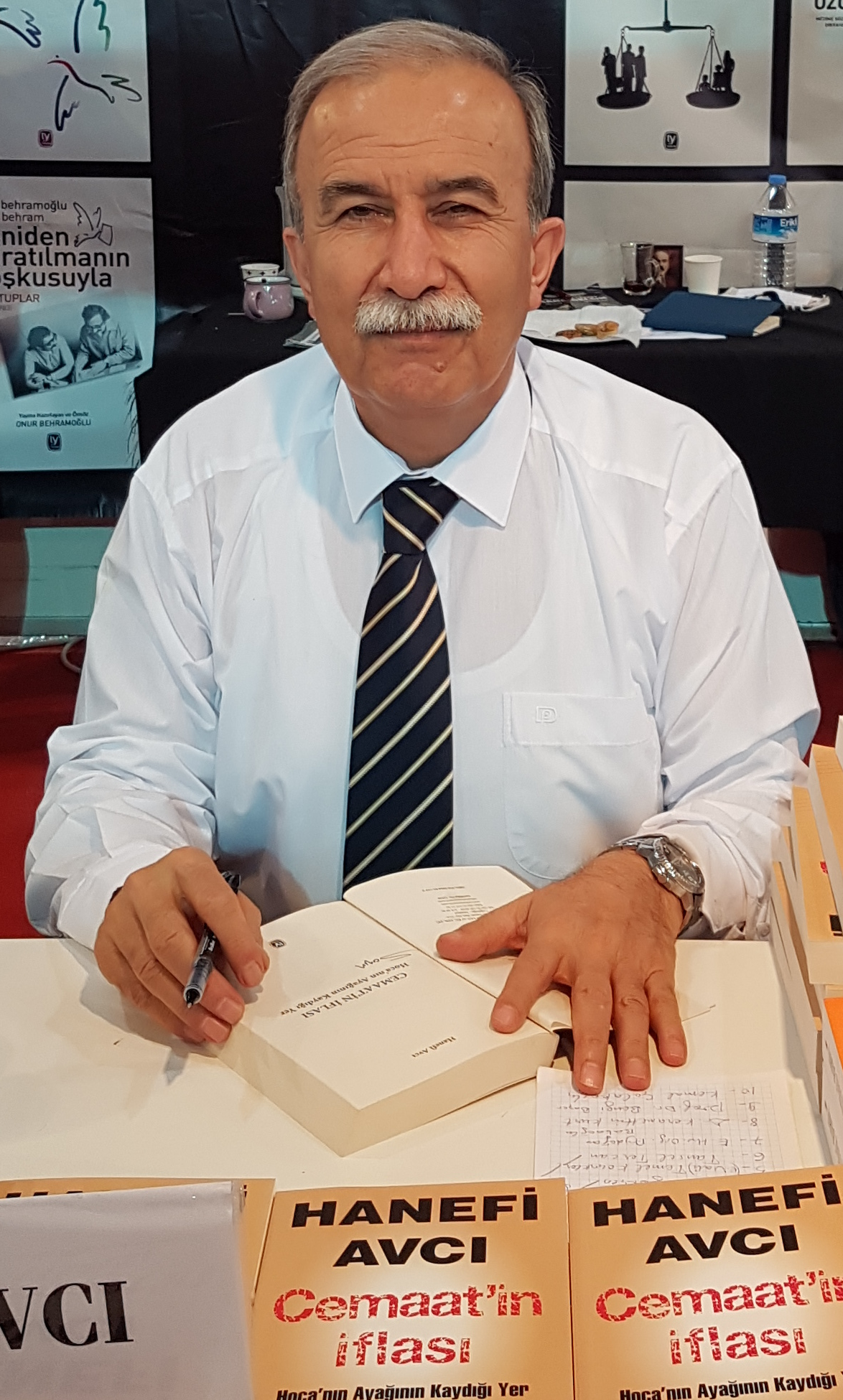 Hanefi Avci at Kocaeli Book Exhibition, May 2016